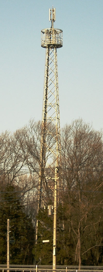 SOFTBANK_Mobile_phone_tower Japan